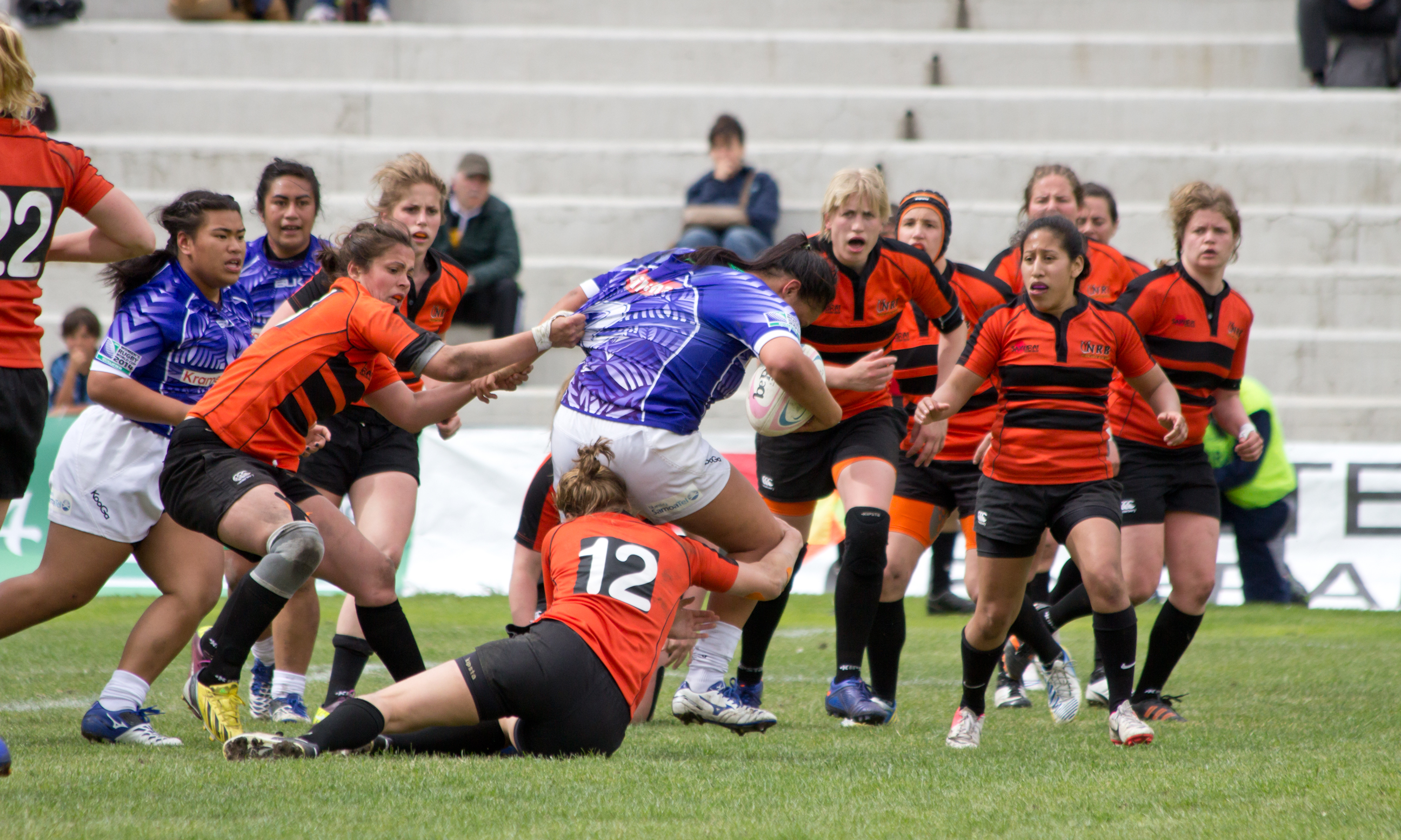 Game of the 2013 Women's European Qualification Tournament between Samoa and the Netherlands 33(b)-14.